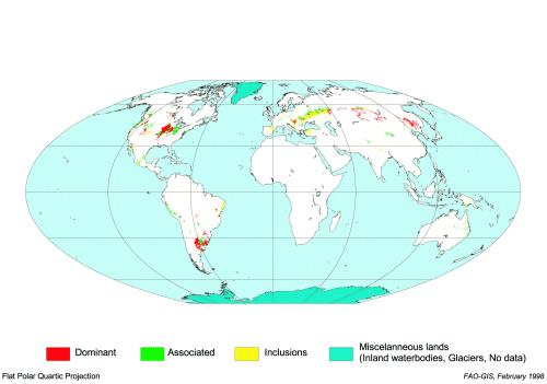 distribution of Phaeozems